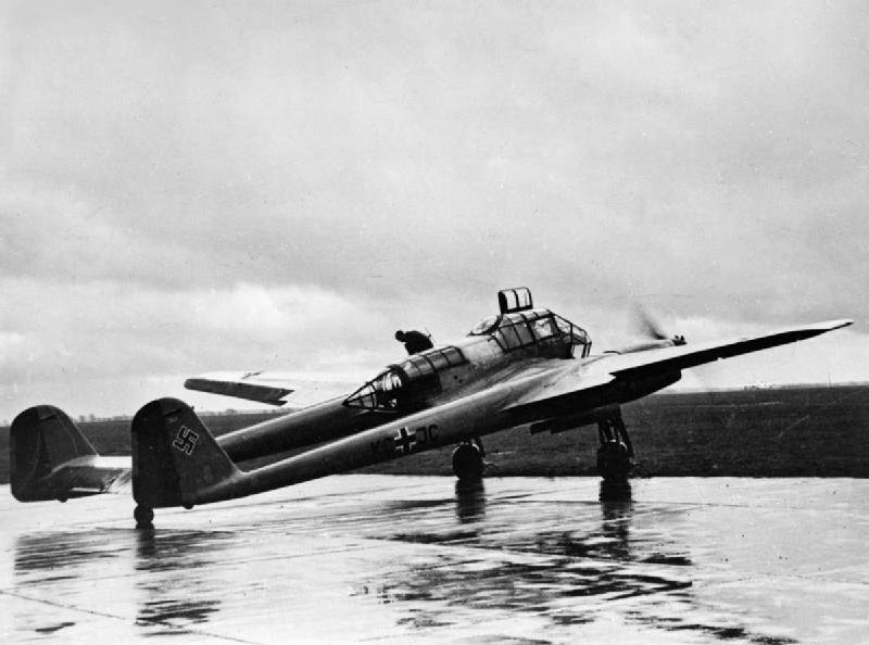 A German Focke-Wulf Fw 189A-2 reconnaissance plane (KC+JC, W.Nr. 0125153) which was bulit by SNCASO at Bordeaux-Merignac, France.